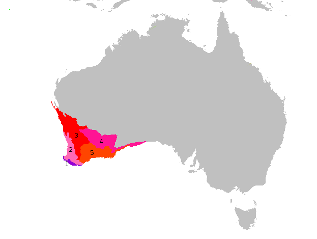 Map of the different ecoregions of the Australian south-west floristic area.